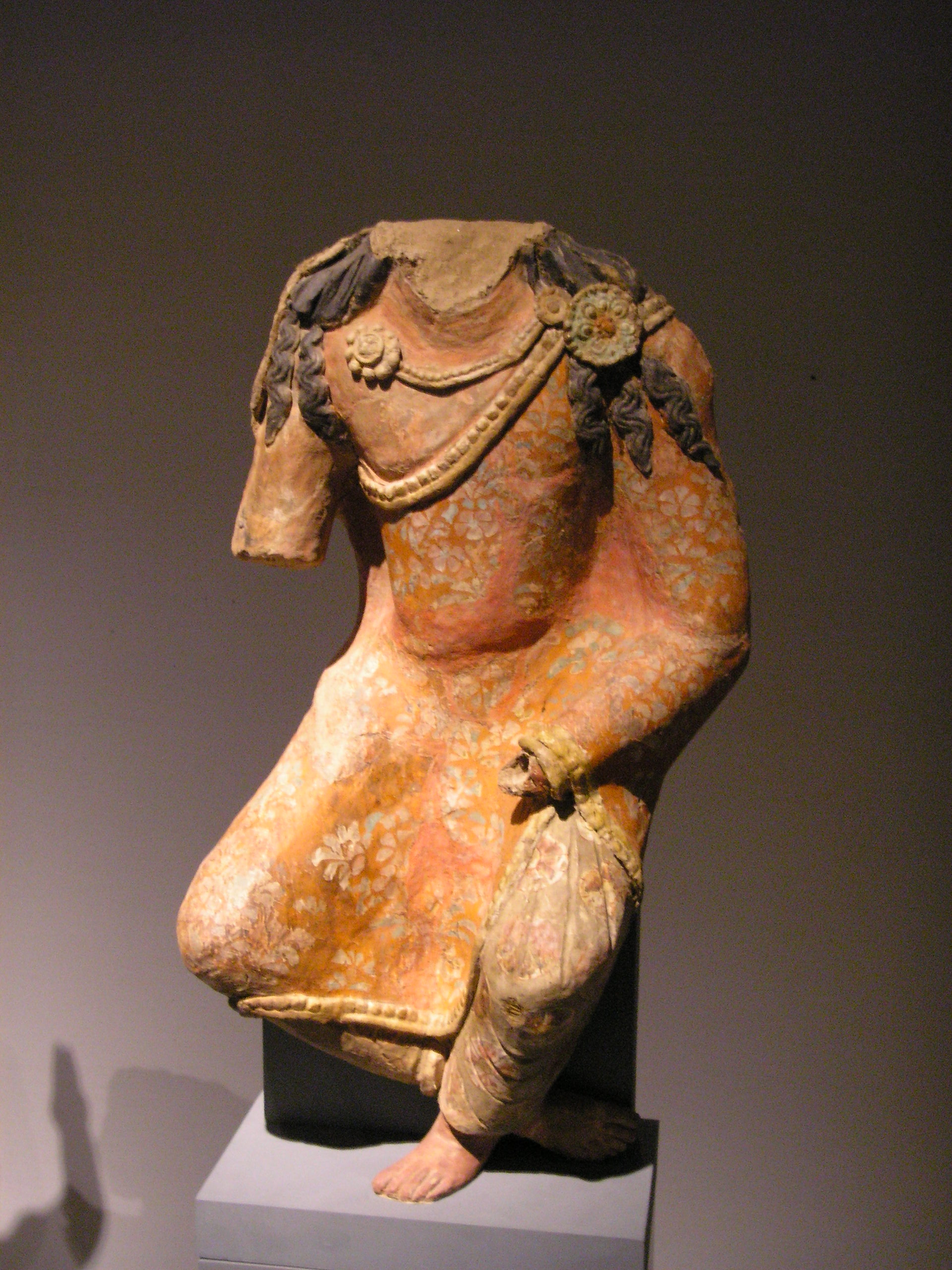 Bodhisattva. Kumtura, 7th/8th century CE (?). painted clay. Height 62.5 cm. Located in the Museum für Indische Kunst, Berlin-Dahlem.